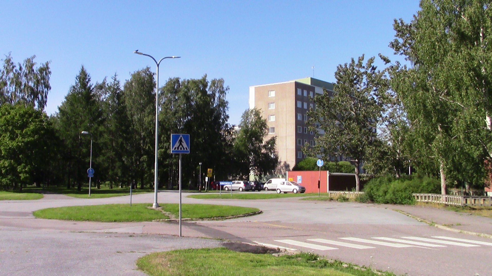 Street of Kuutintie at Pormestarinluoto suburb in Pori, Finland.